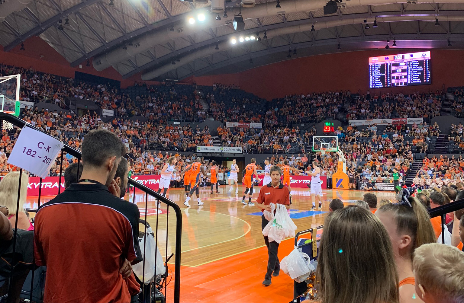 Cairns Convention Centre in basketball configuration (hall 2), during the Cairns Taipans vs Melbourne United NBL game